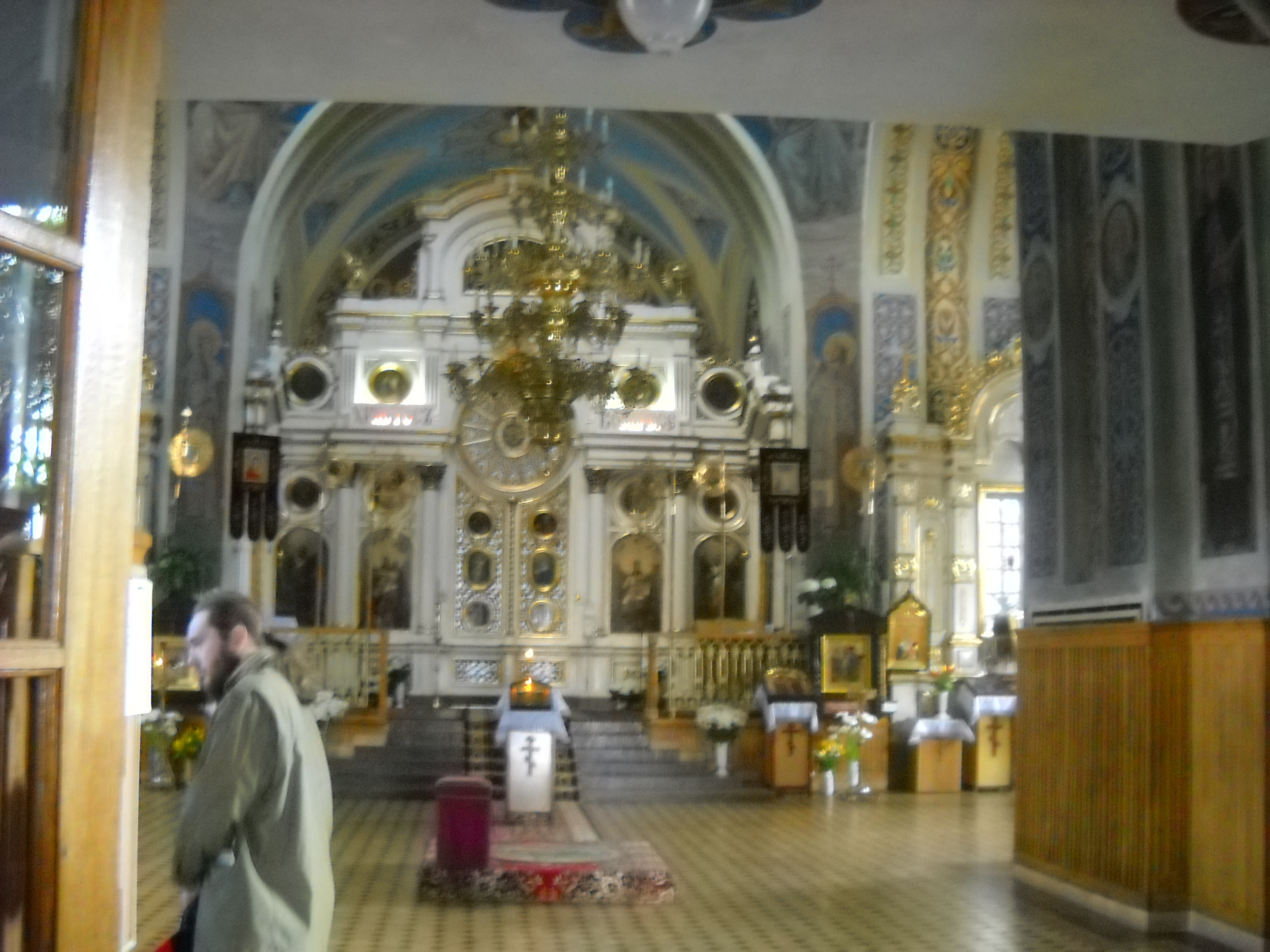 Iconostasis in Orthodox Cathedral of St. Nicholas in Białystok